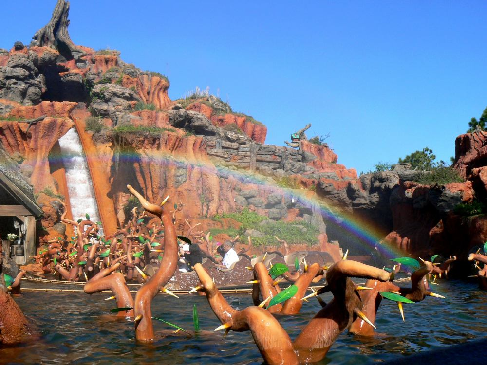 Splash Mountain flume ride at Magic Kingdom, Orlando FL